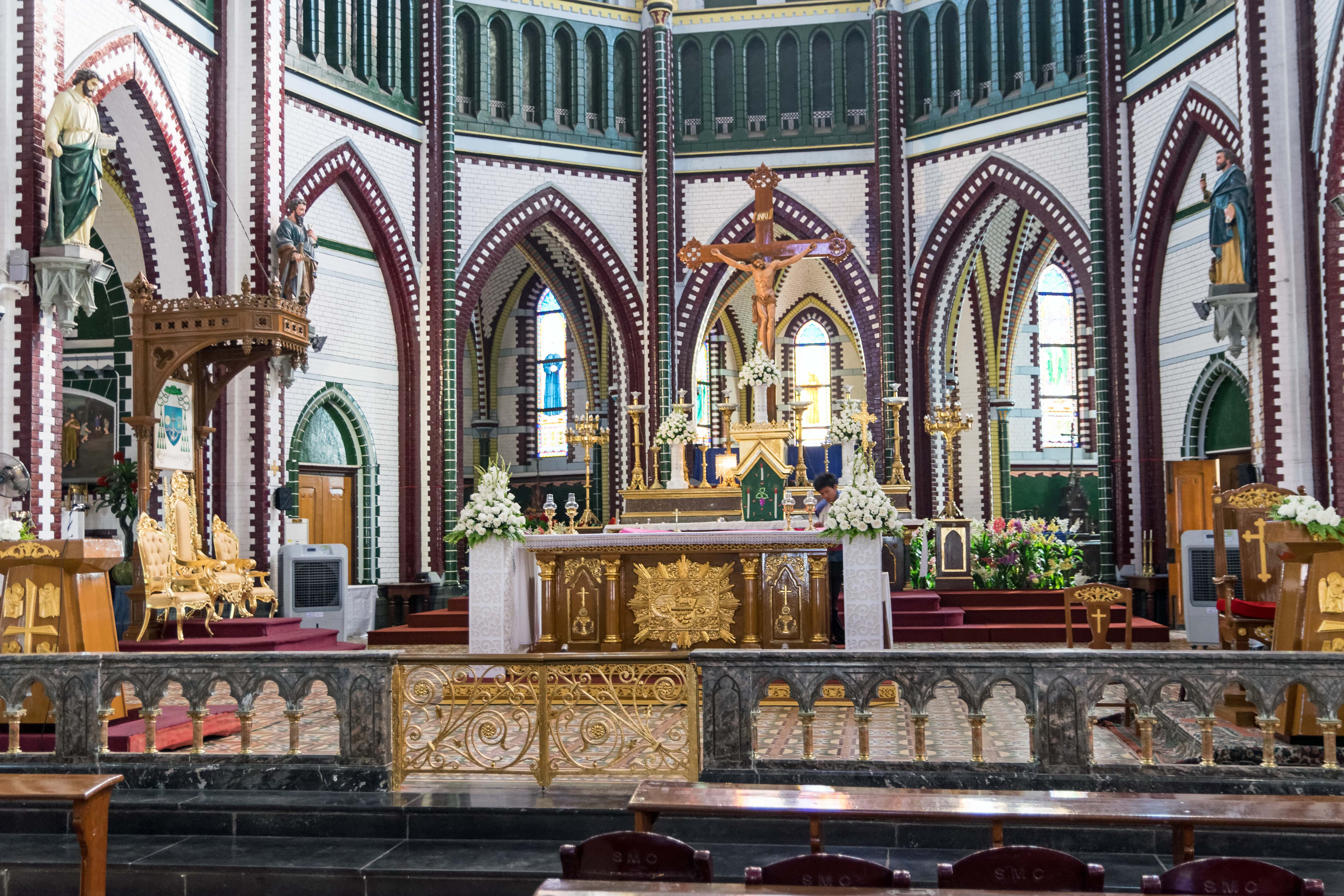 Chancel of the St. Mary's Cathedral in Yangon, Myanmar